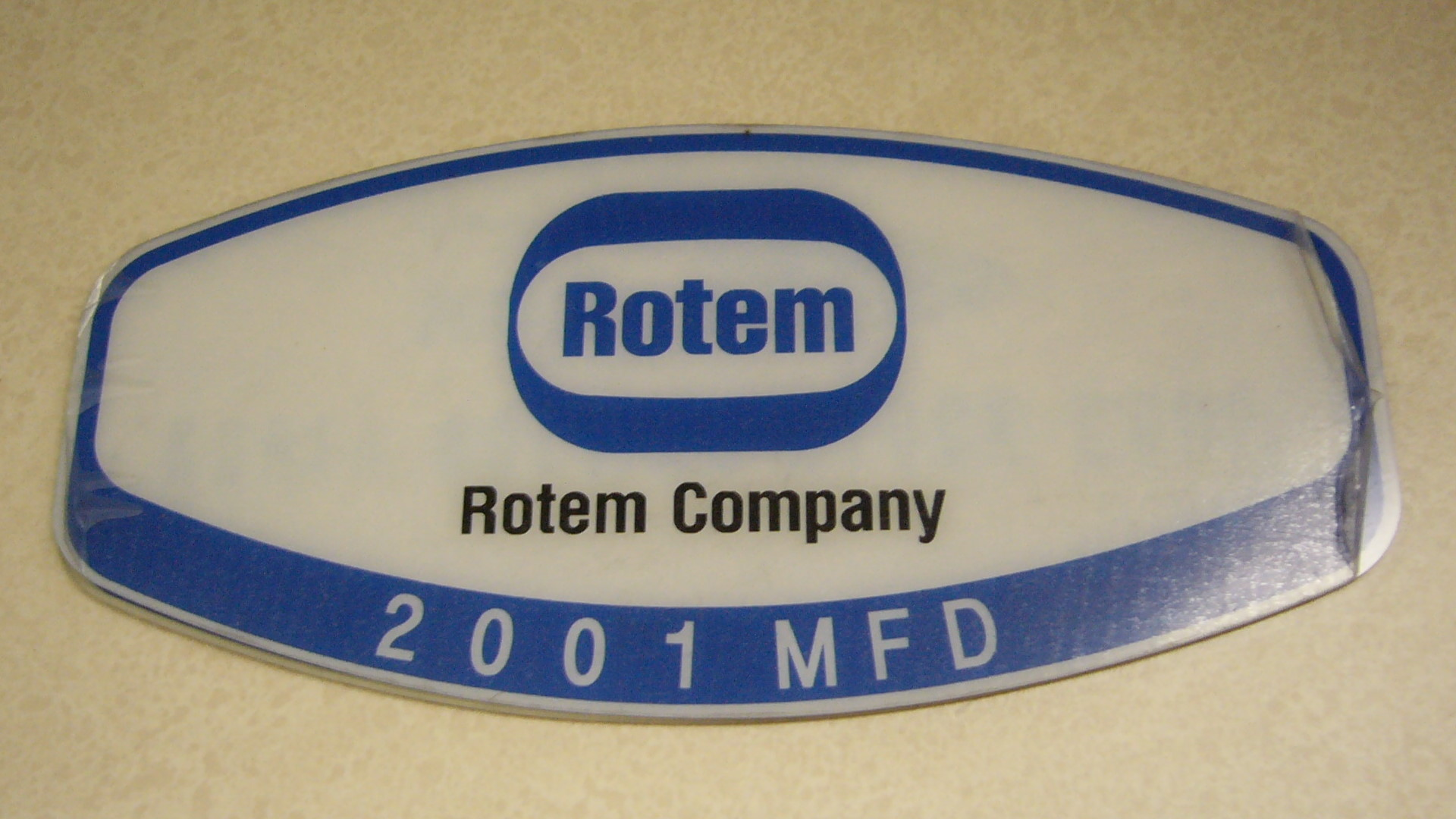 Rotem plate in TRA EMU600.